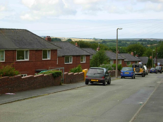 Trecwn. Looking along Barham Road. These houses were built to accommodate workers at the Royal Naval Armaments Depot which has now closed.